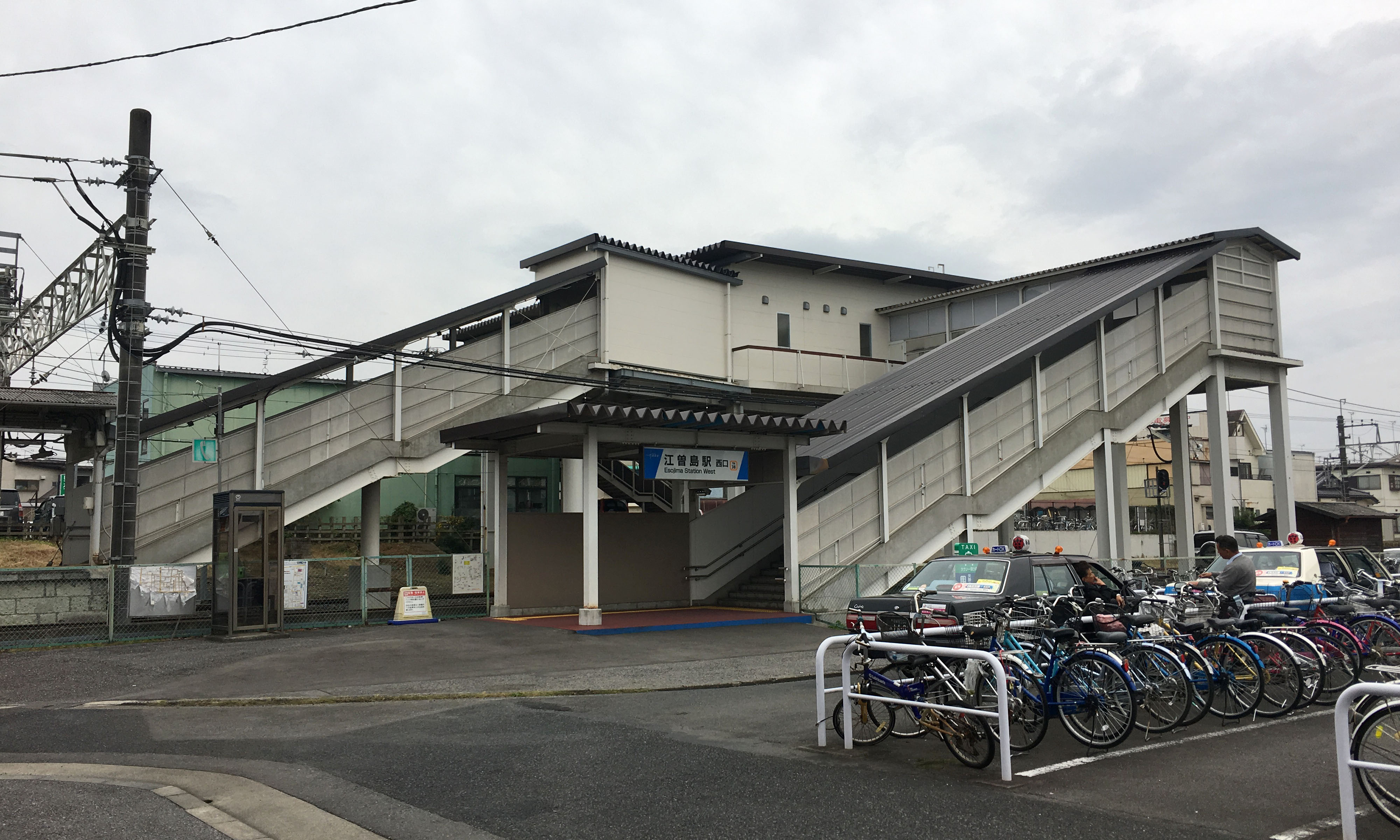 Esojima Station west entrance (Tōbu Utsunomiya Line in Japan)